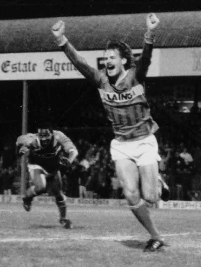 Roy McDonough is a former professional football player and manager in the English football league. His surname is occasionally misspelt in the media as Roy McDonagh.